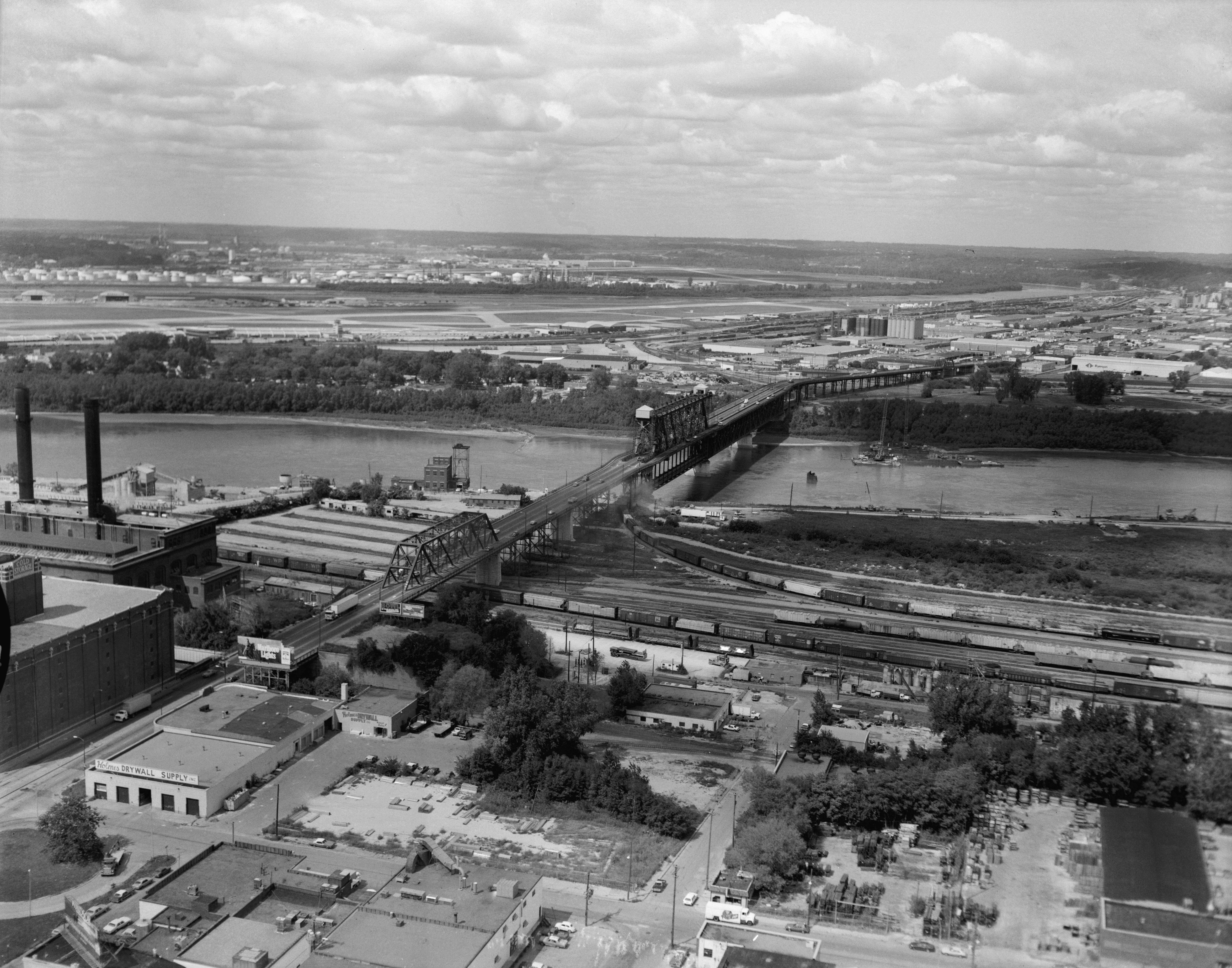 Armour, Swift, Burlington Bridge, Kansas City, Jackson County, MO. View of entire bridge looking Northwest.